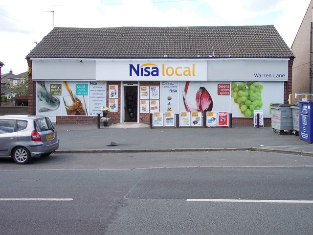 Nisa - Warren Lane